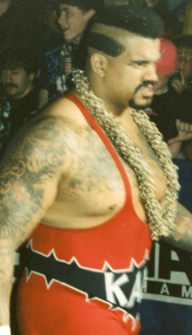 Paul Wright as Kama during a WWF tour at Manchester, England in April 4, 1998